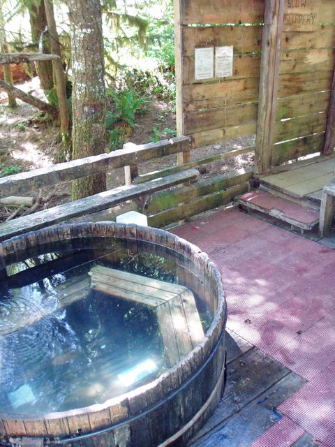 This is a photo taken by me on location: Bagby Hot Springs, Oregon, US